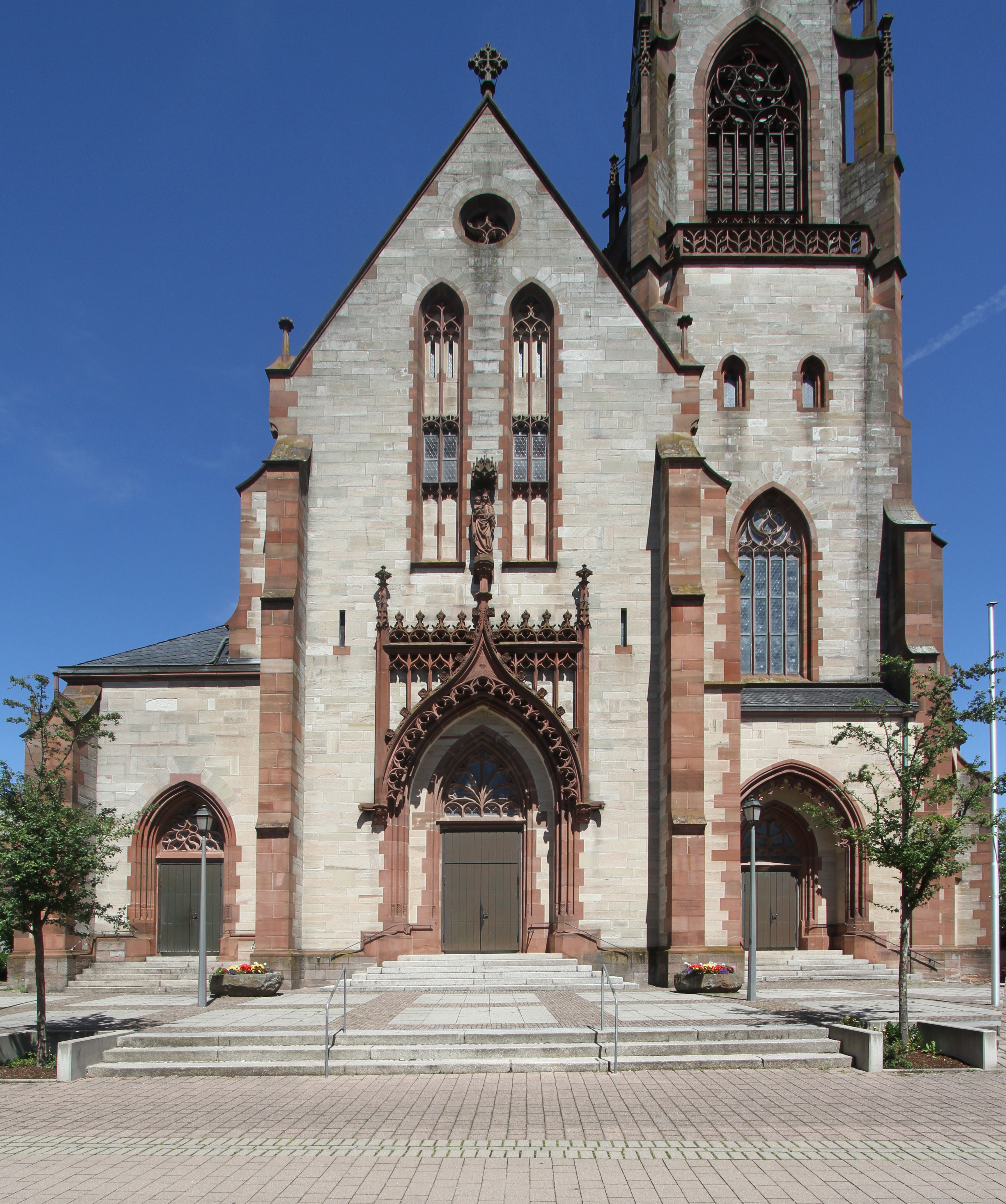 Church Maria Königin der Engel in Muggensturm.